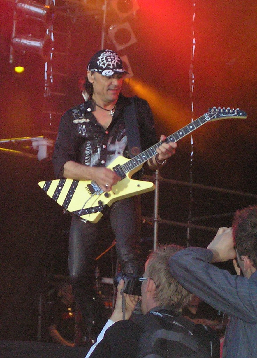 Matthias Jabs - Scorpions